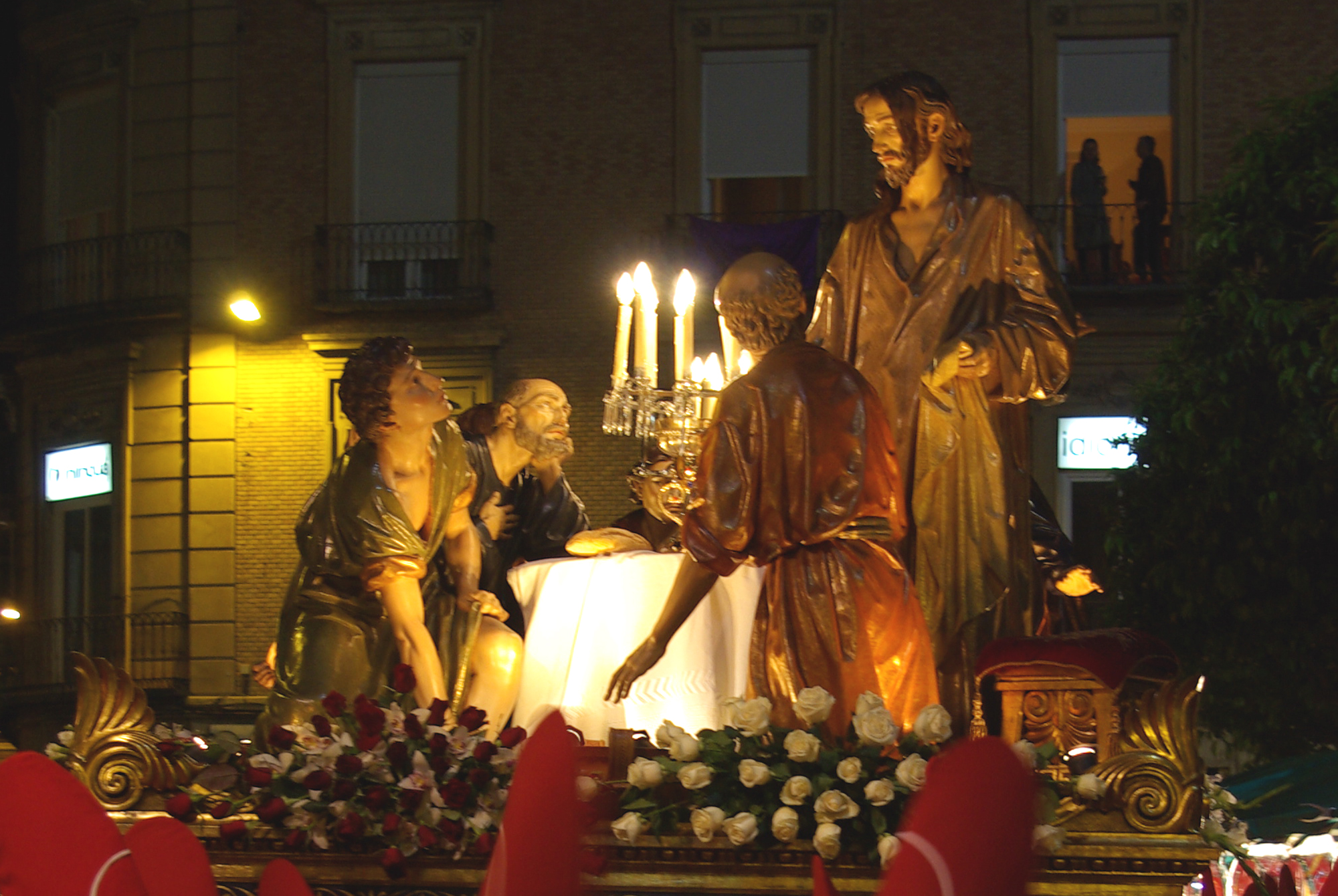 Paso of the Holly Week of Murcia, Spain.